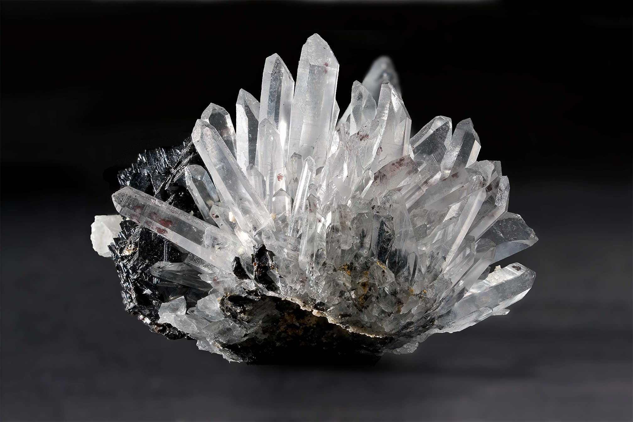 Rock crystal (variety of Quartz), Sphalerite, Pyrite, Mangano Calcite, Rhodochrosite - Locality: Peru, Lima province, Huaron Mine Camera data Camera Canon EOS 400D Lens Canon EF 70-200mm f4L w/ 12mm +25mm + 36mm extension tube Flash Shoot through umbrella above Focal length mm Aperture f/11 Exposure time 1/160 s Sensivity ISO 100